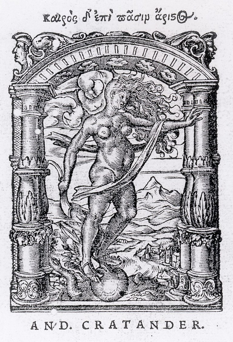 Printer's Device for Andreas Cratander. Metalcut, 7.8 × 60 cm 13.5 × 10.1 cm, Kunstmuseum Basel. The Roman goddess portrayed is Occasio, like Kairos, with whose attributes Holbein invests her, a goddess of opportunity. The Greek motto translates: "In all things it is best to take advantage of the right time". Holbein here uses decorative motifs familiar from his previous work, such as the squat columns that appear in his portraits of Jakob and Dorothea Mayer and the segmented arch border (Christian Rümelin, in Müller et al, p. 491).